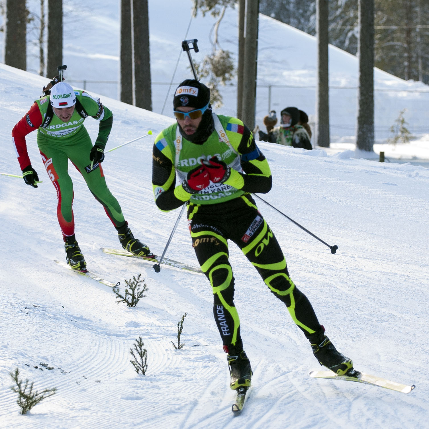 Simon Fourcade, E.ON IBU WORLD CUP 8 BIATHLON - Kontiolahti (FIN)